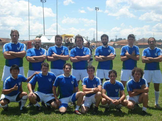 Lobo Bravo Rugby's second uniform.